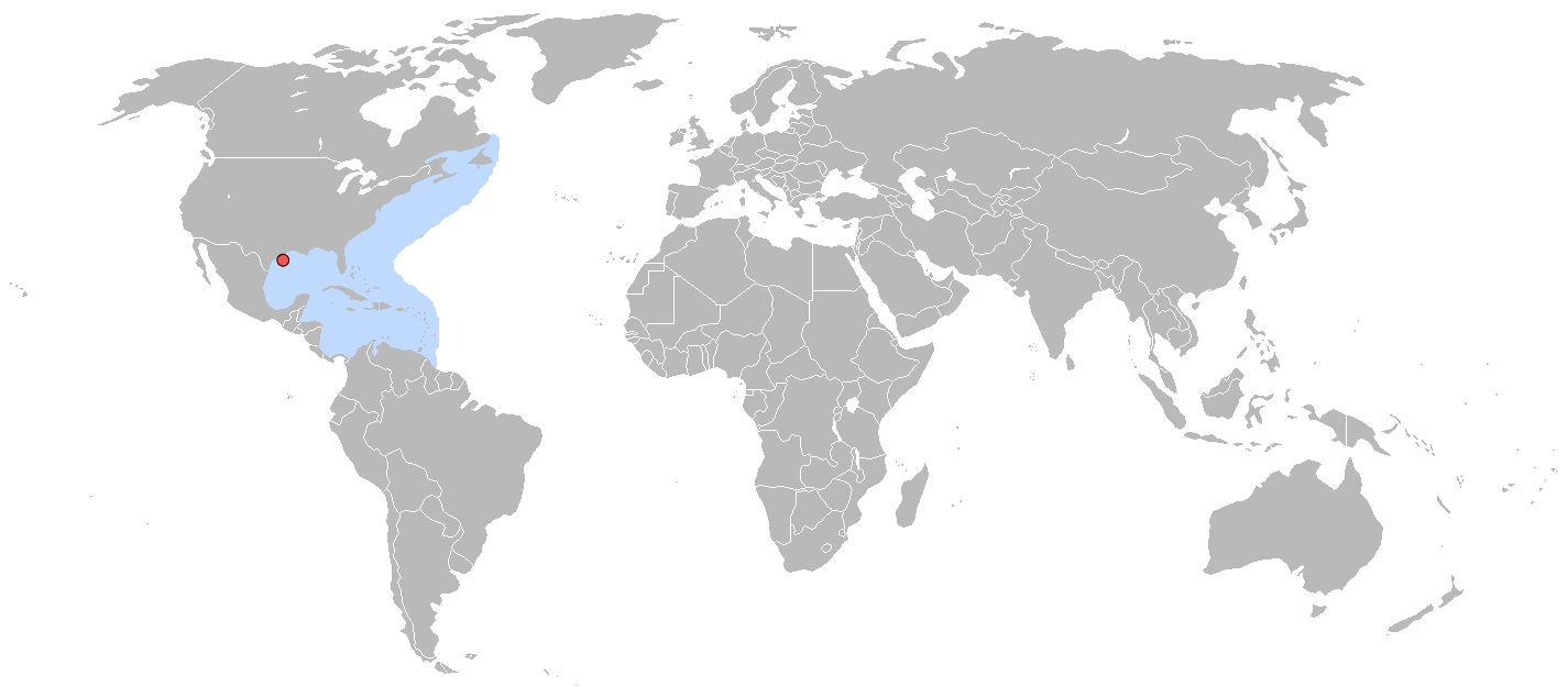 Nesting location of Kemp's Ridley Turtle : red dot = major nesting locations, yellow dot=minor nesting locations